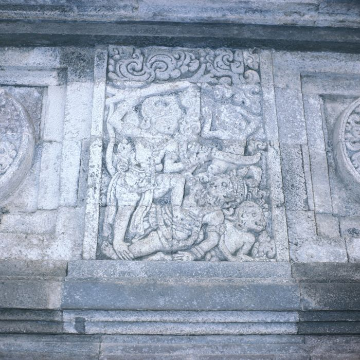 Low reliefs at the Candi Induk, Panataran temple complex